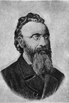 Charles Joseph Kickham (9 May 1828–22 August 1882) was an Irish patriot, novelist, poet and founding member of the Irish Republican Brotherhood.